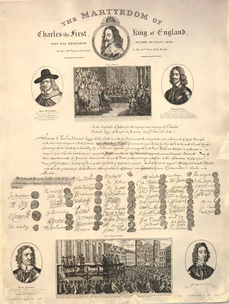 Lithograph of the execution of Charles I of England.